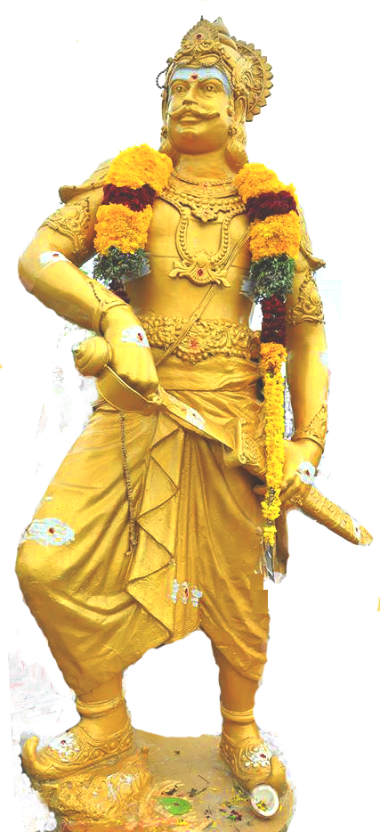 the king